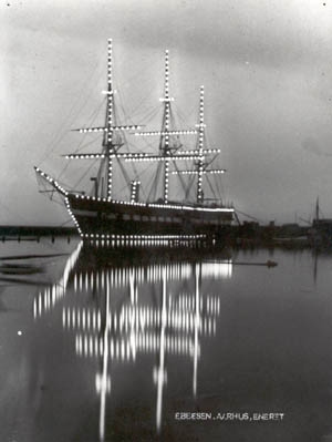 Fregatten Jylland oplyst under Landsudstillingen i Aarhus, 1909